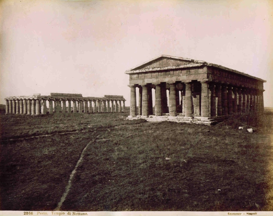 Giorgio Sommer (1834-1914), "Paestum - Temple of Neptune". Catalogue #: 2066.